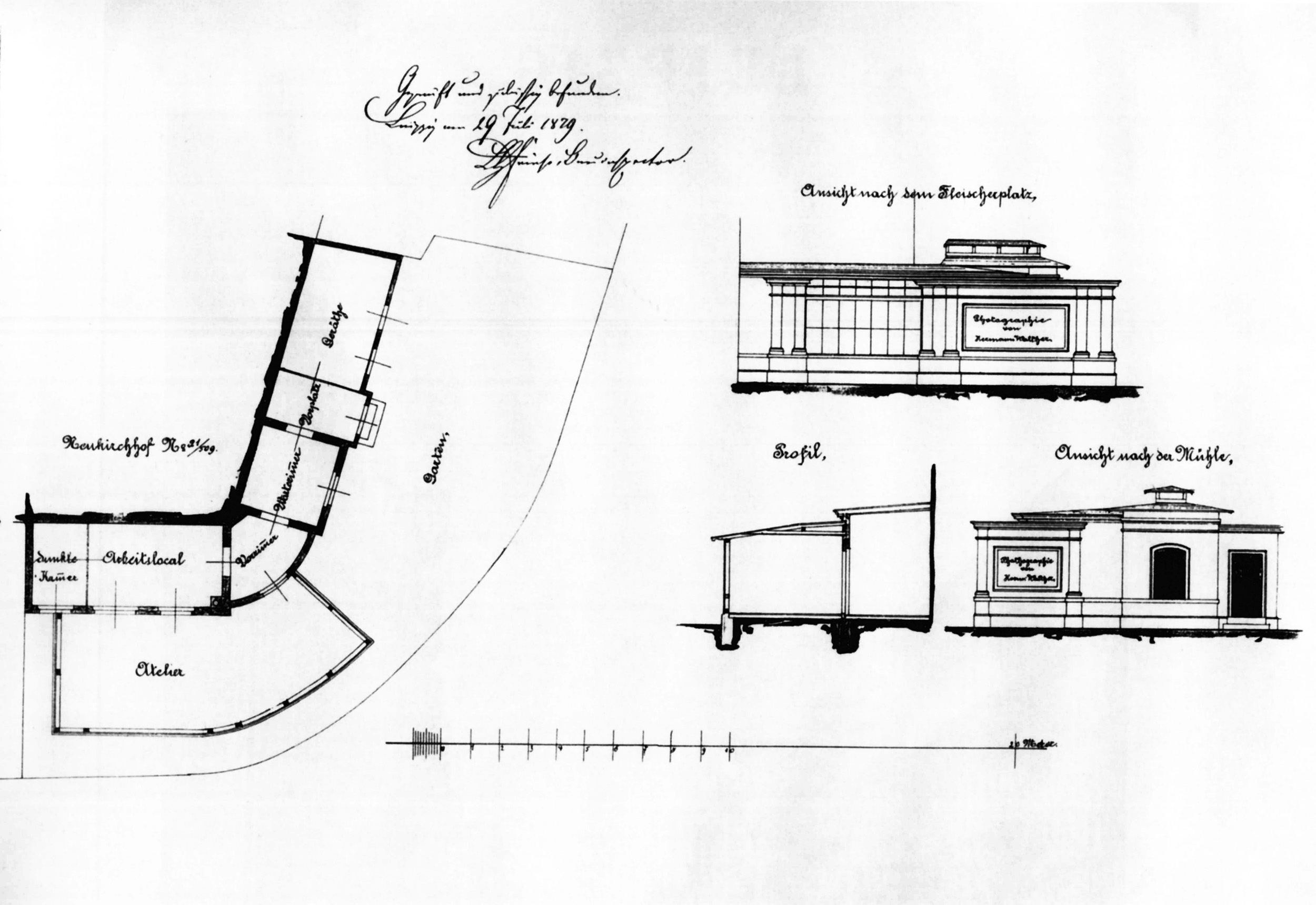 Architectural drawing, Atelier Walter Hermann, Leipzig, Töpferplatz, approved 29th July 1879